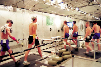 Volunteer test subjects at the Doriot Climatic Chambers, Natick, Massachusetts, USA.